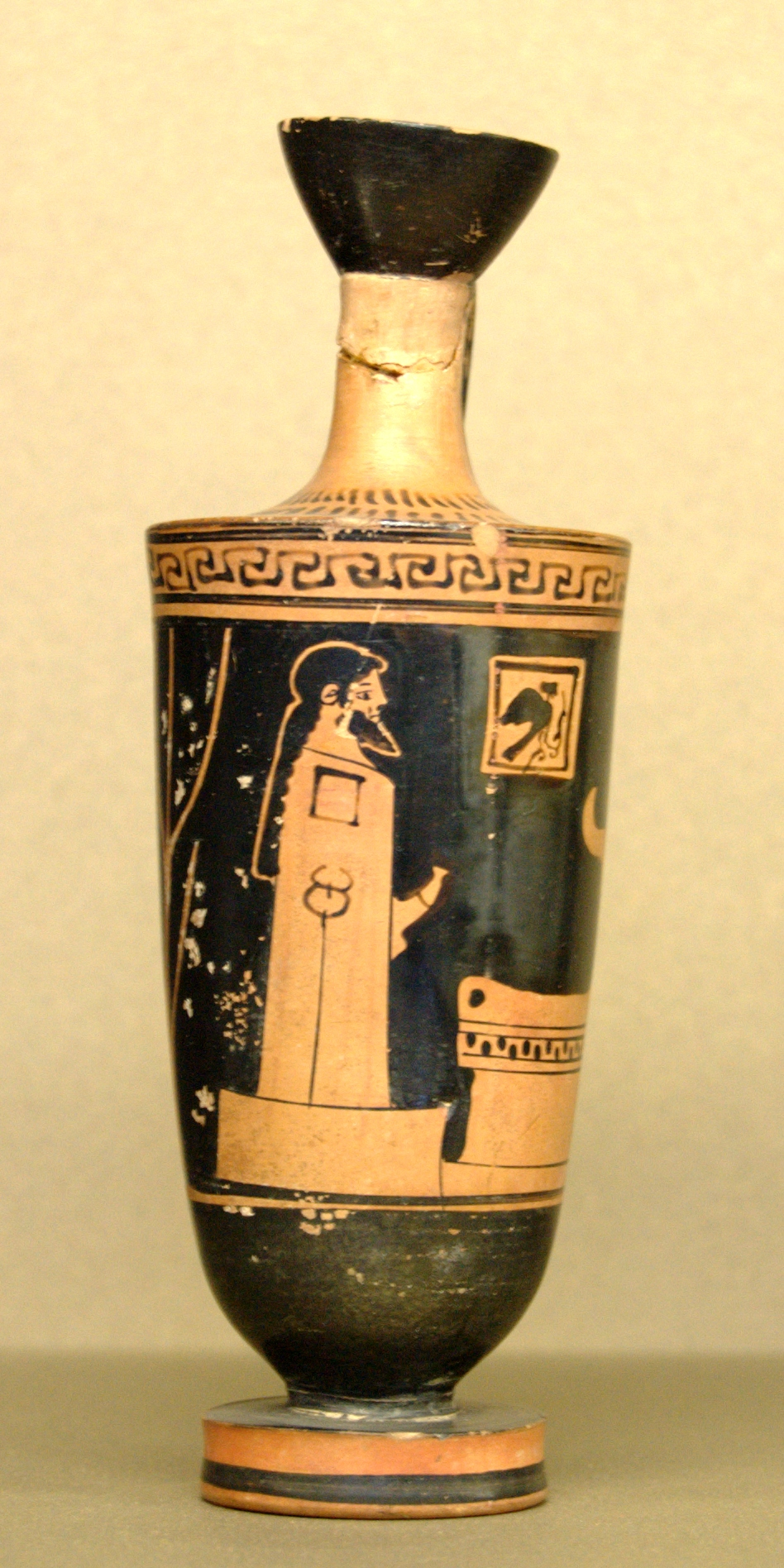 Rustic sanctuary. Attic red-figure lekythos, 475–450 BC.